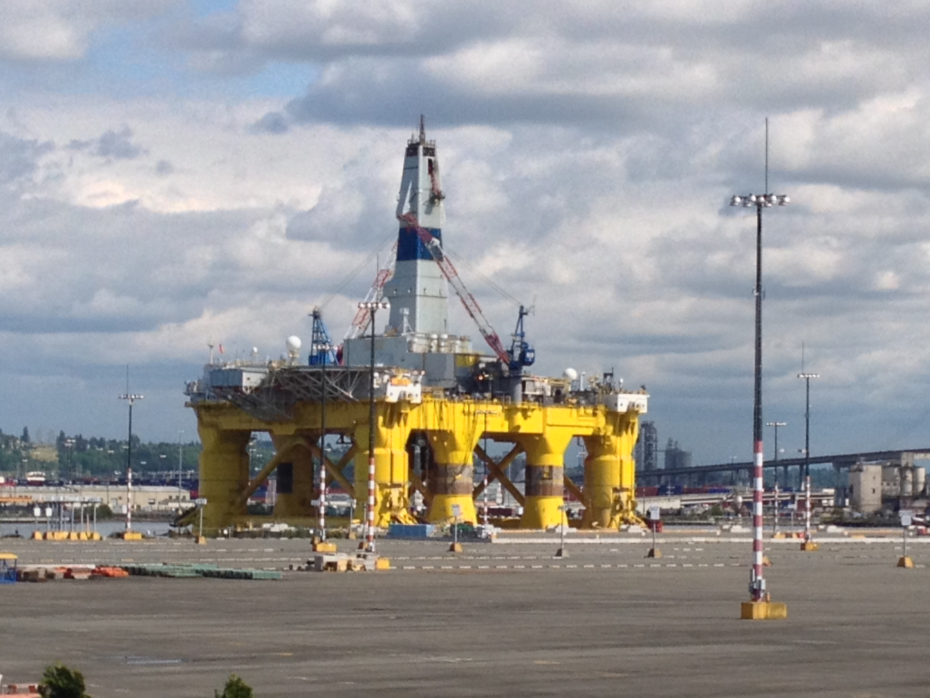 Shell Oil's Polar Pioneer Arctic Drilling Rig as seen from Beach Drive, Jack Block Park, and Harbor Avenue.